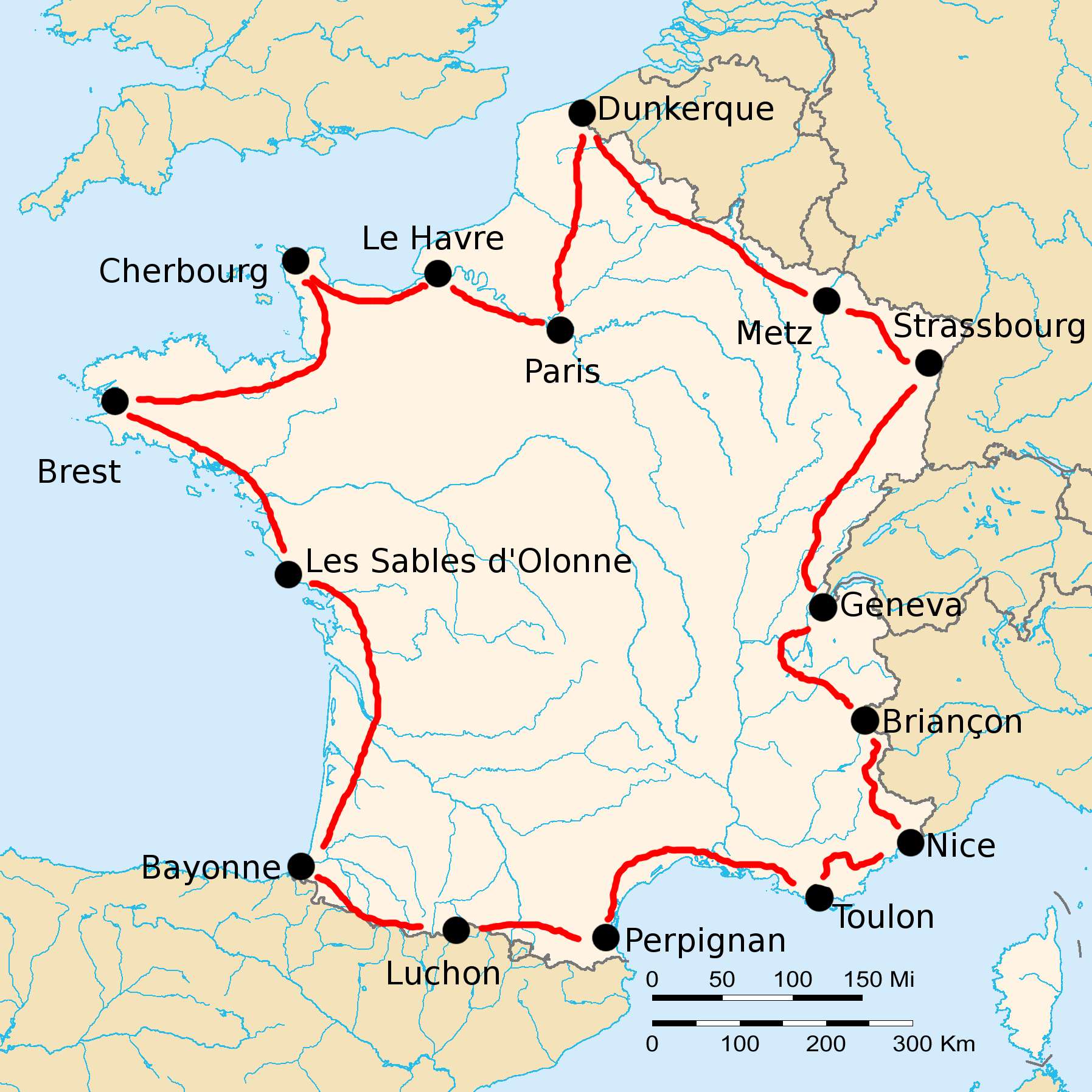 Route of the 1922 and 1923 Tour de France, starting in Paris, run counter-clockwise.